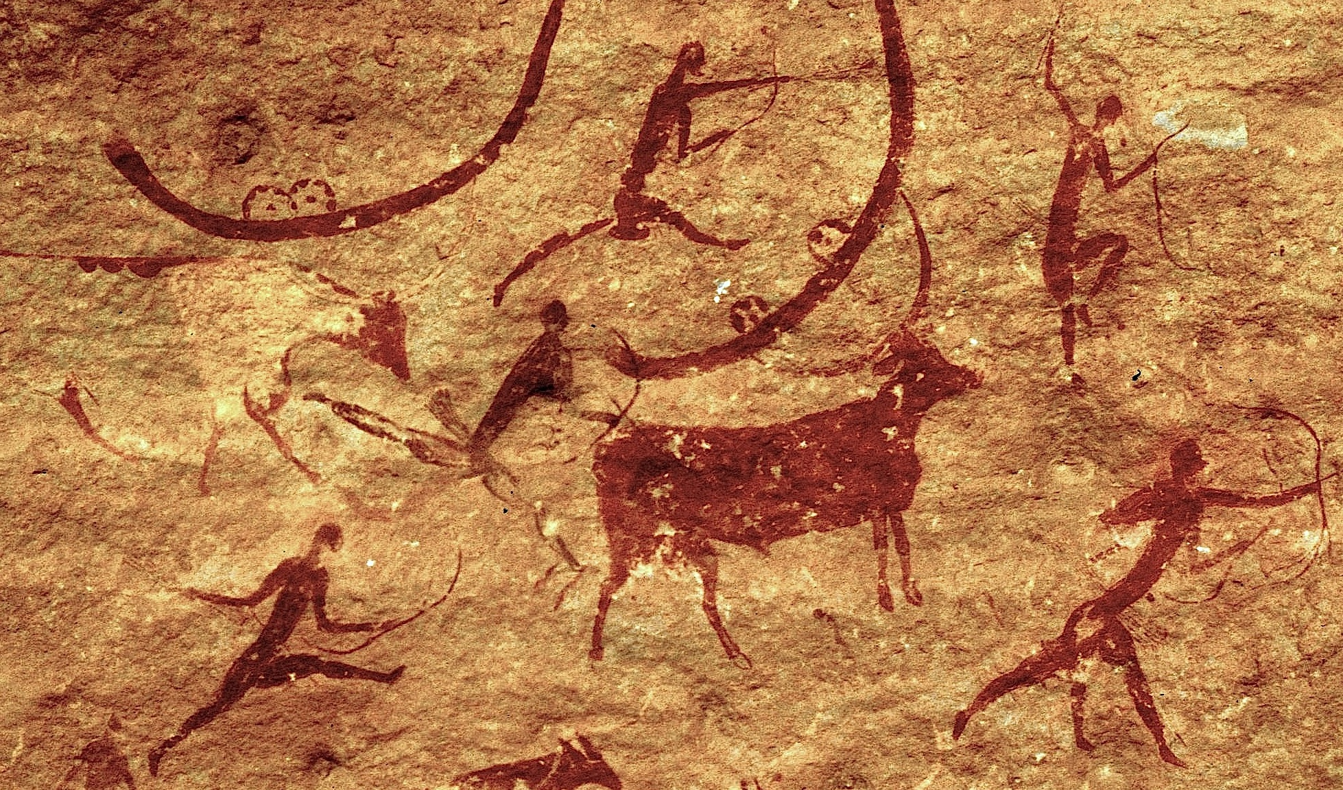 Algerien Desert